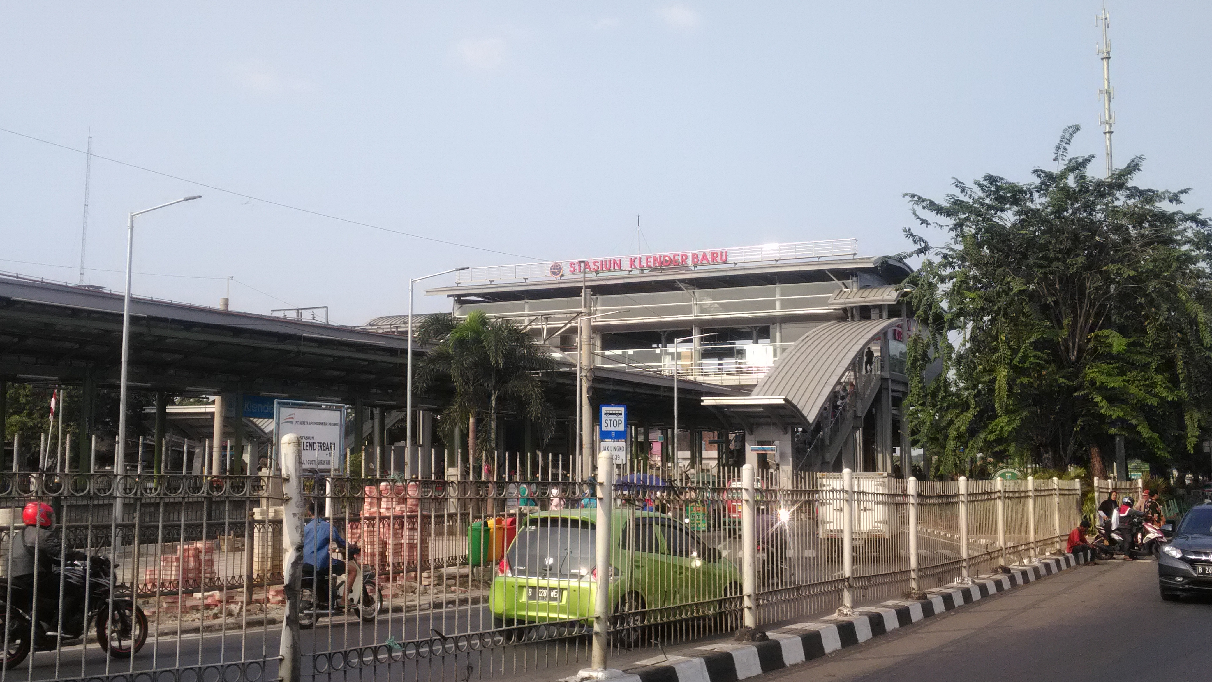 Klender Baru Station Sunda: Stasion Klénder Baru